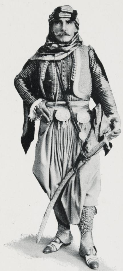 “A DRAGOMAN”A man in elaborate ceremonial dress.